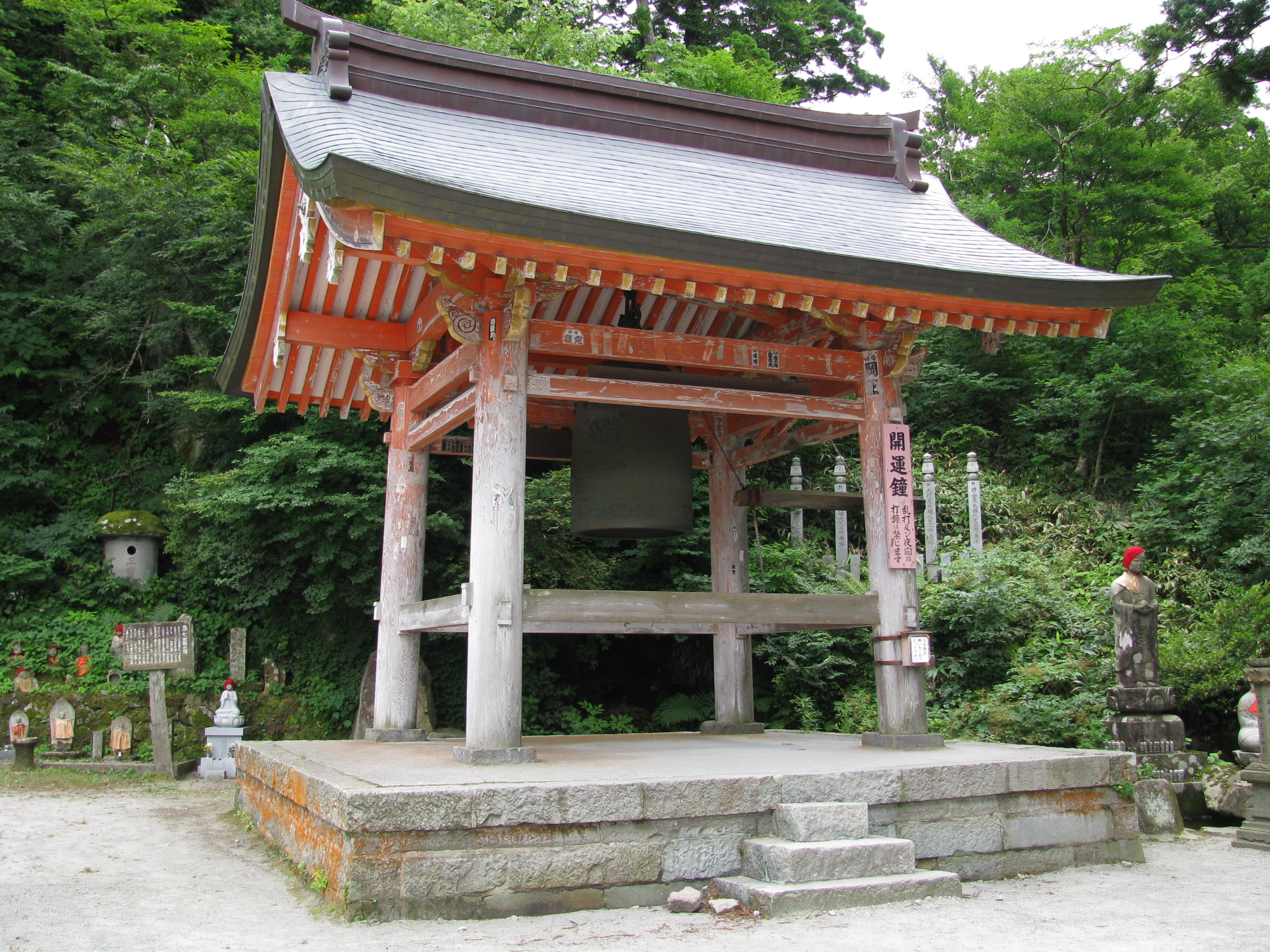 The Daisen-ji。This place is Daisen, Tottori Prefecture, Japan.